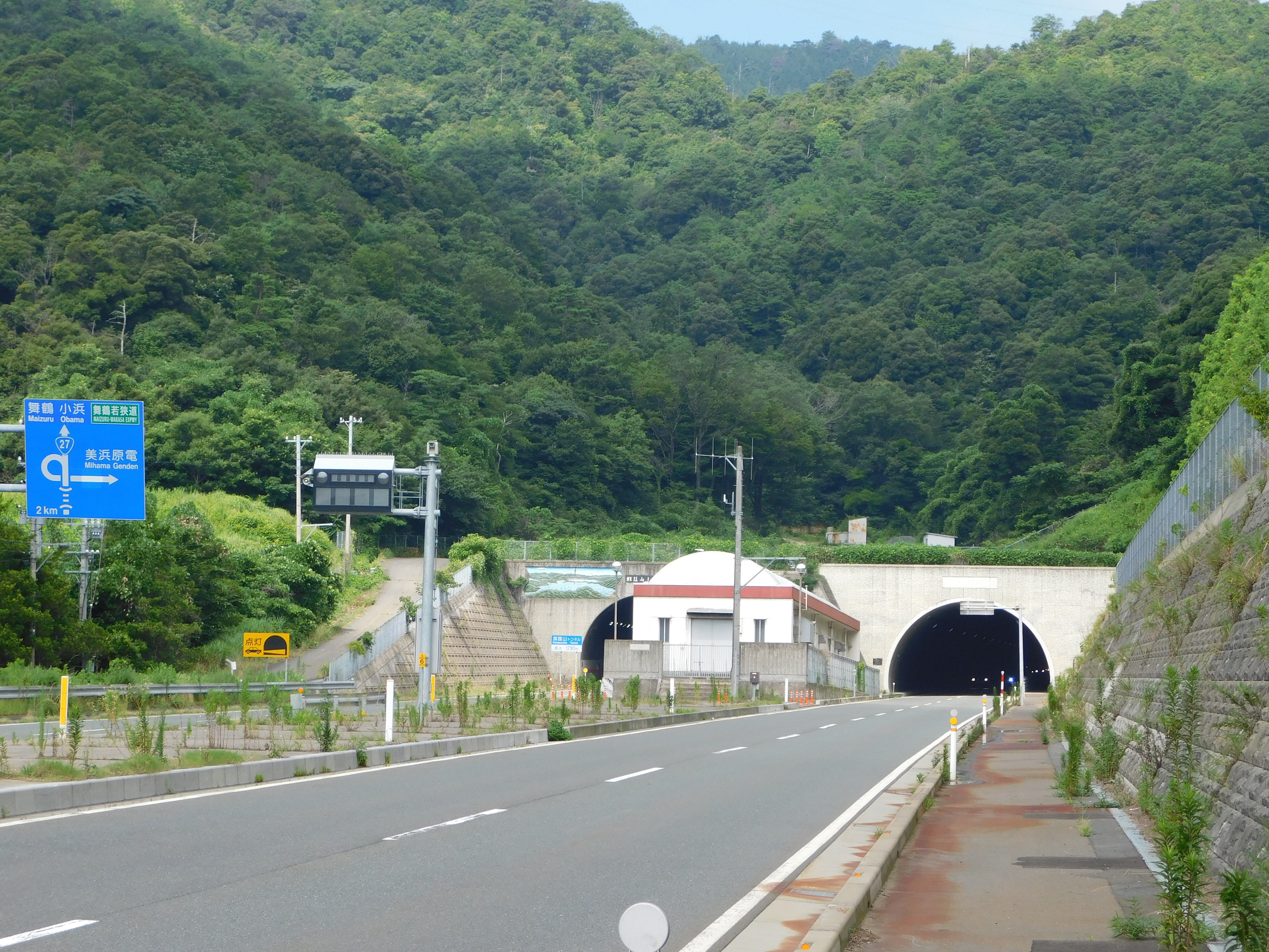 Hatagoyama Tunnel is the boundary between Tsuruga and Mihama in Fukui Prefecture.